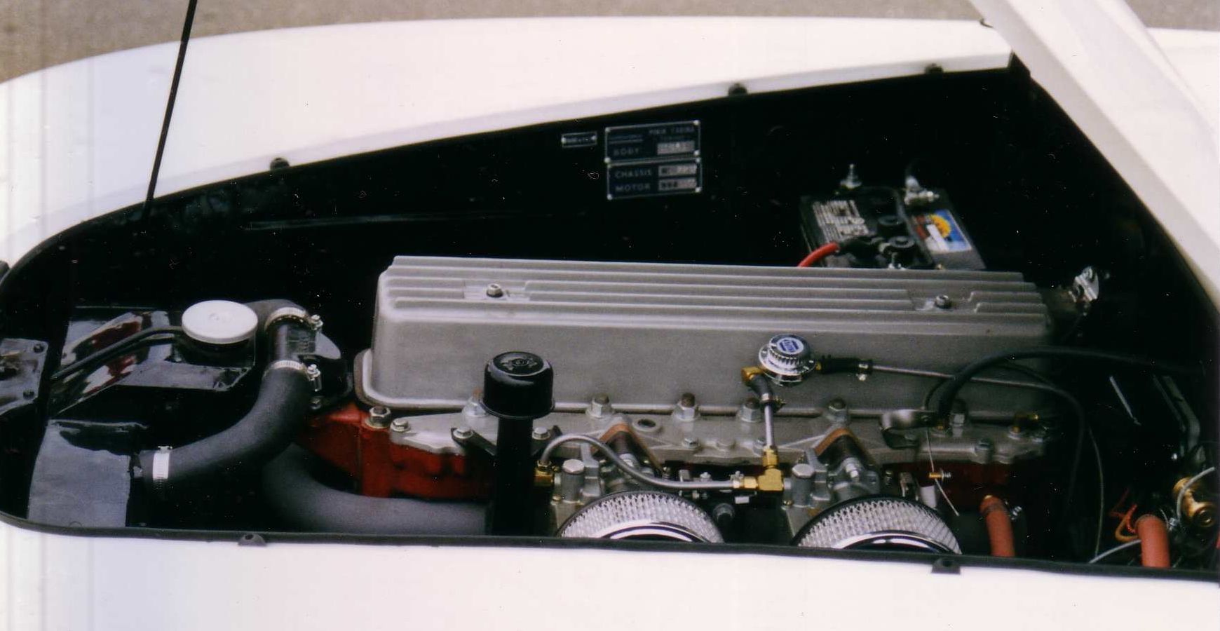 The 6-cylinder Nash Ambassador engine in a Nash-Healey sports car.